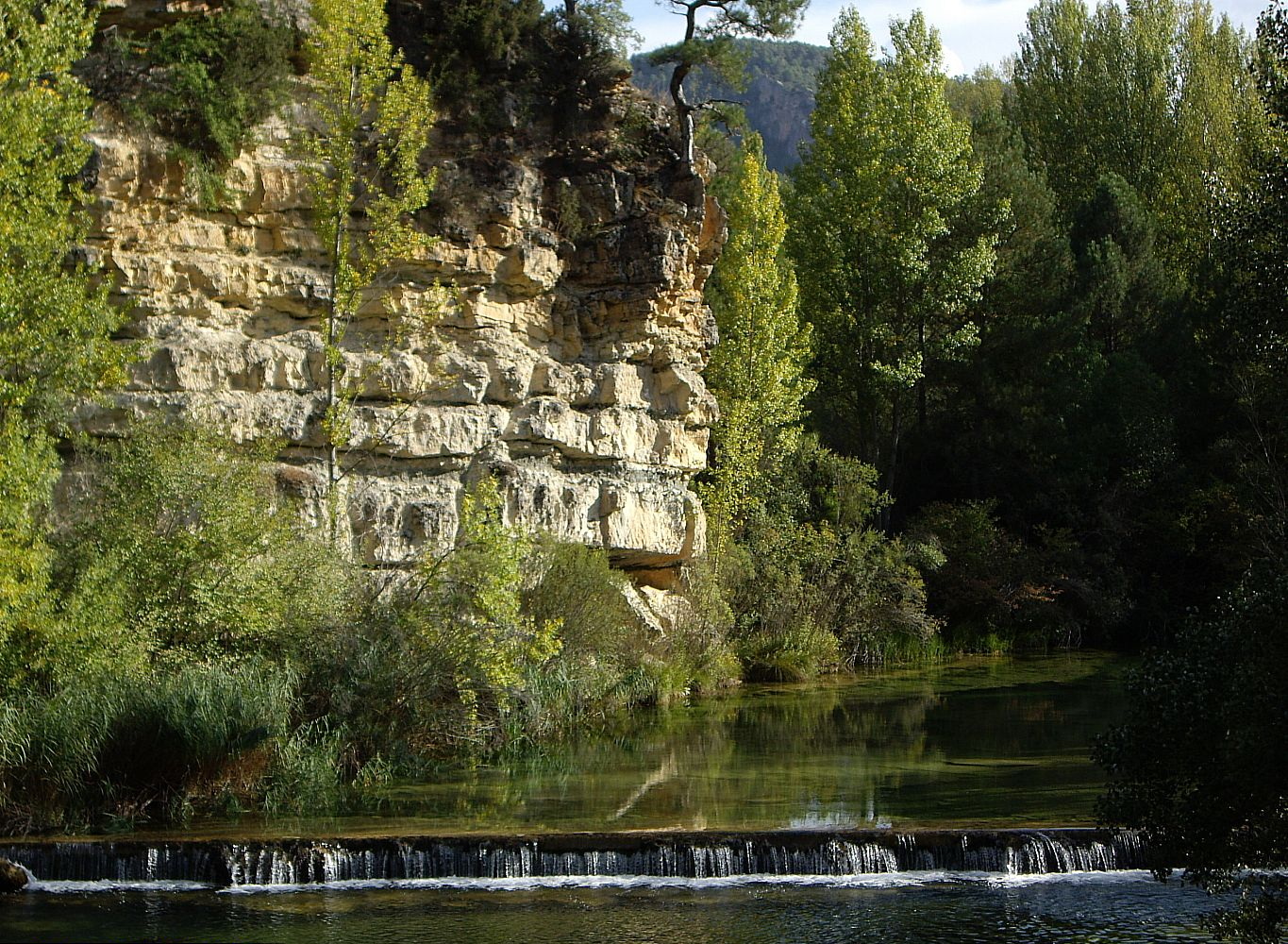 Cascade of La Herrería in Puente de San Pedro. Nature Reserve of Alto Tajo, in Zaorejas, Guadalajara, Spain.